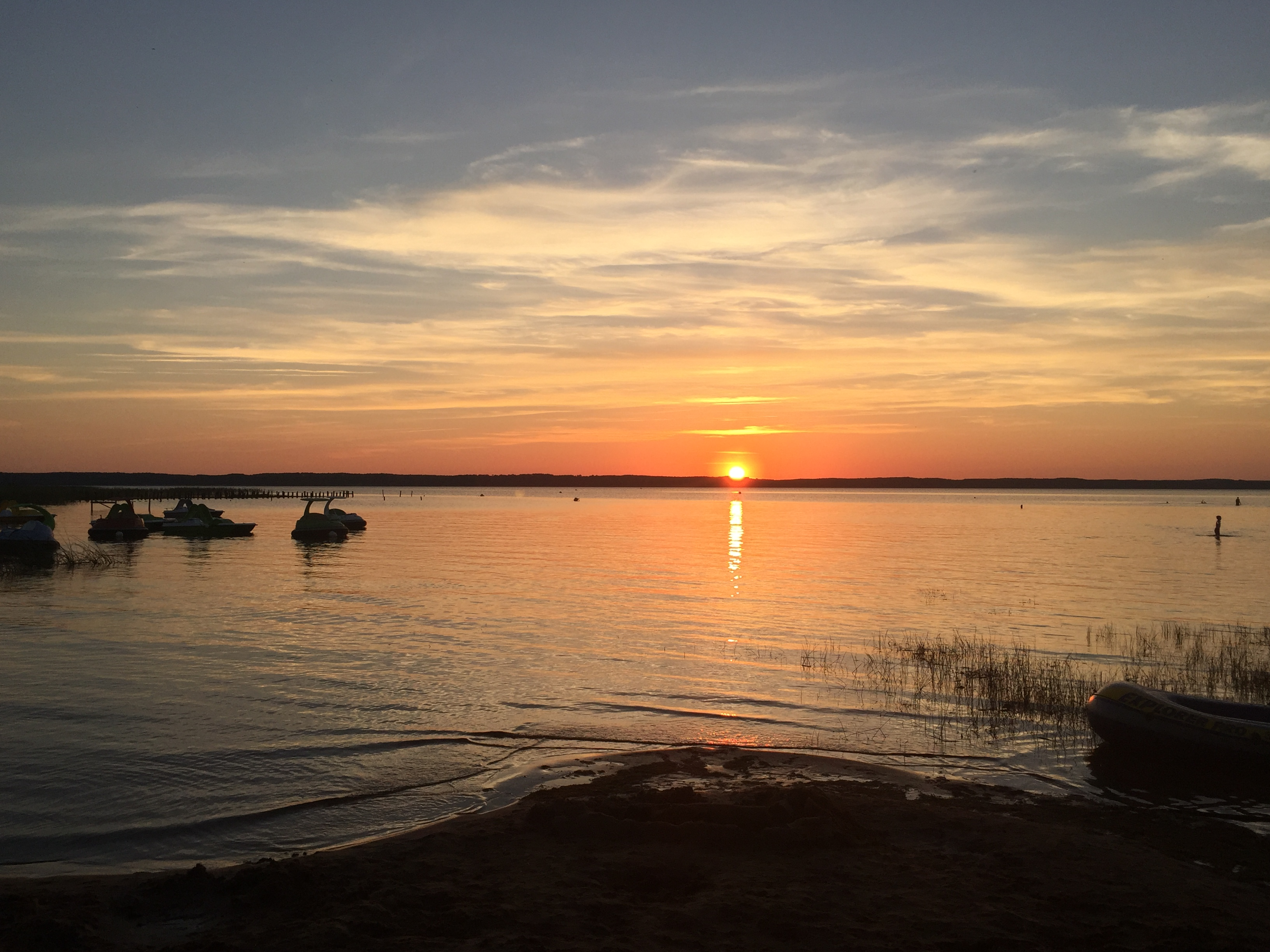 We visited La Rive campsite near to Biscarosse when staying with Eurocamp. The campsite has direct access to the lake via a lovely beach and this photo was taken one evening. Go Camp France More photos can be seen on La Rive Campsite